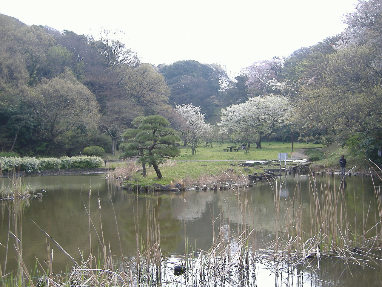 Kuraki Park(Yokohama, Japan)